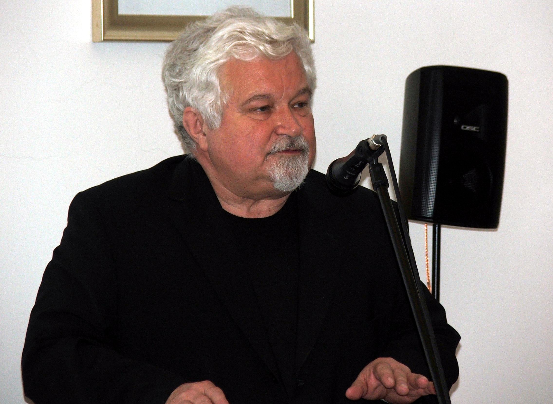 Czech politician Petr Pithart.